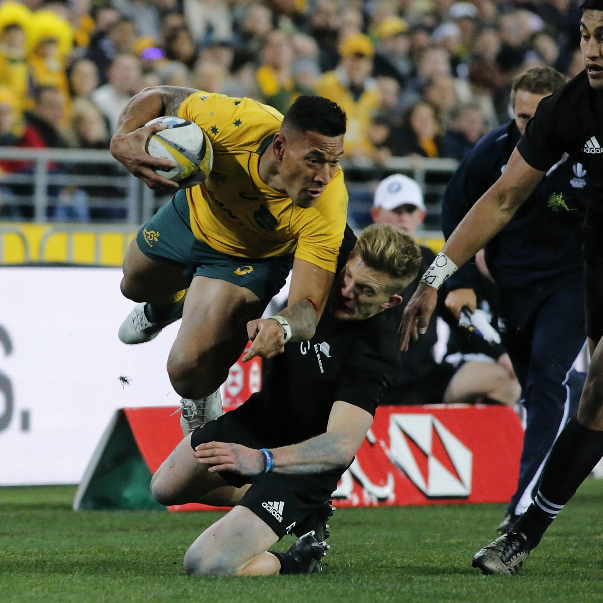 2017.08.19.20.37.00-Israel Folau 2017 Rugby Championship, Bledisloe 1, Australia vs New Zealand, 19th August, ANZ Stadium, Sydney